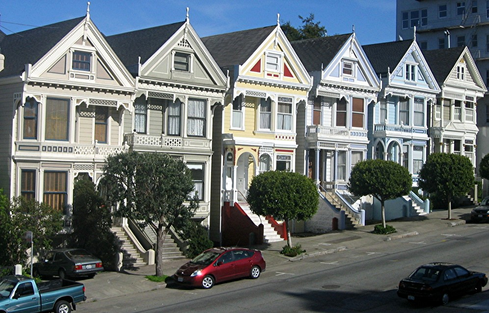 Description:Painted Ladies, Alamo Square, San Francisco, USA Author : own work, Urban ; I took this picture on April 2006.